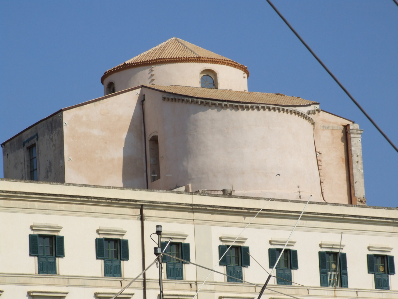 Siracusa Italy - Creative Commons by Gnuckx